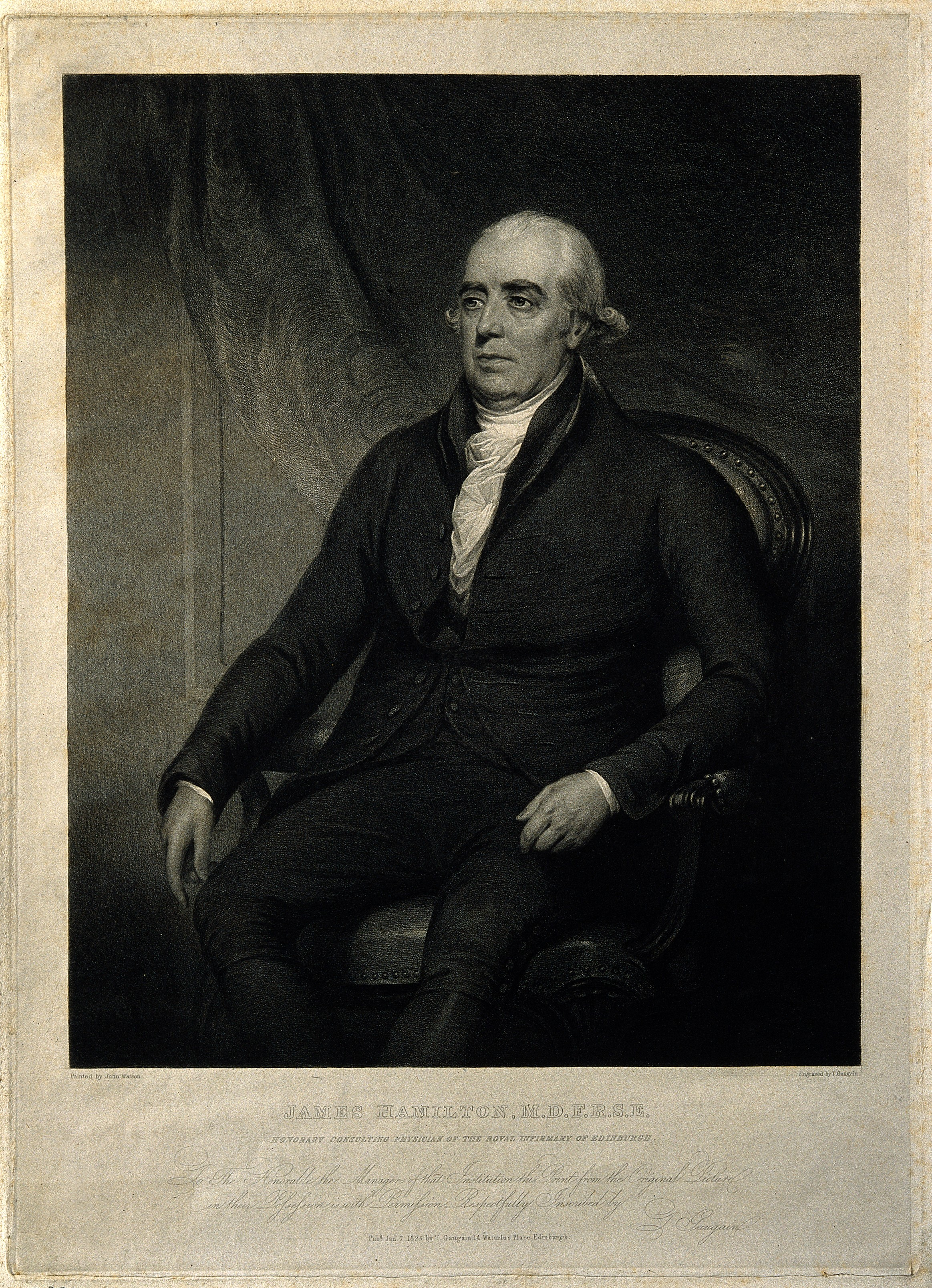 James Hamilton. Mezzotint by T. Gaugain, 1825, after J. Watson. Iconographic Collections Keywords: portrait prints; John Watson- Gordon; mezzotints; Thomas Gaugain; James Hamilton